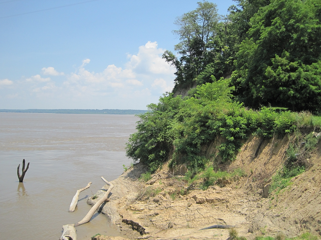 Western terminus of TN 59 in Gilt Edge, Tennessee at the second Chickasaw Bluff.